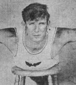 Multnomah Athletic Club swimming instructor Arthur "Tums" Cavill